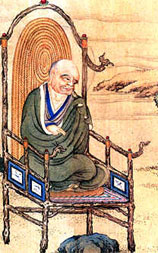 Dao Xin, the 4th Zen Patriarch.